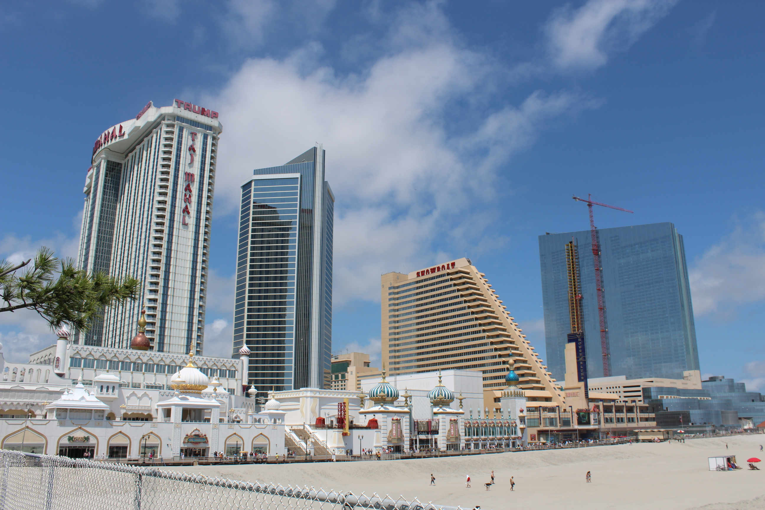 The Atlantic City boardwalk and beach